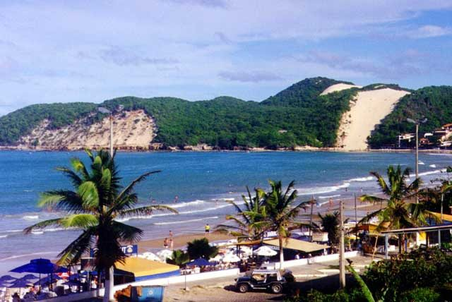 Ponta Negra Beach, at Natal,RN